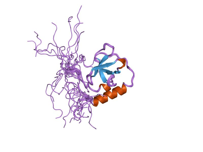 Cartoon representation of the molecular structure of protein registered with 2diq code.